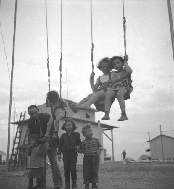 Children of the workers at the Sodom potash works